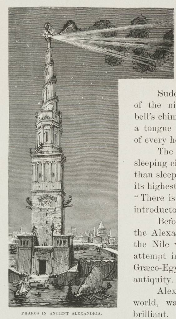 A tall, thin building with a light at the top, in ancient times.